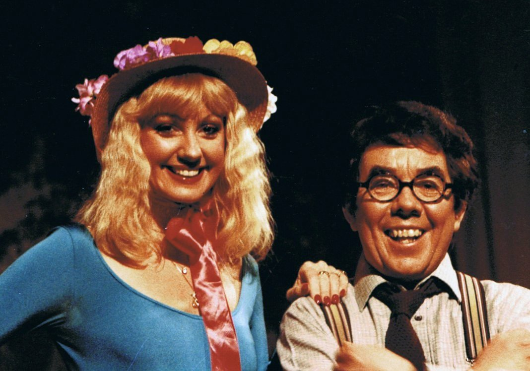 Photograph of Susie Silvey with Ronnie Corbett